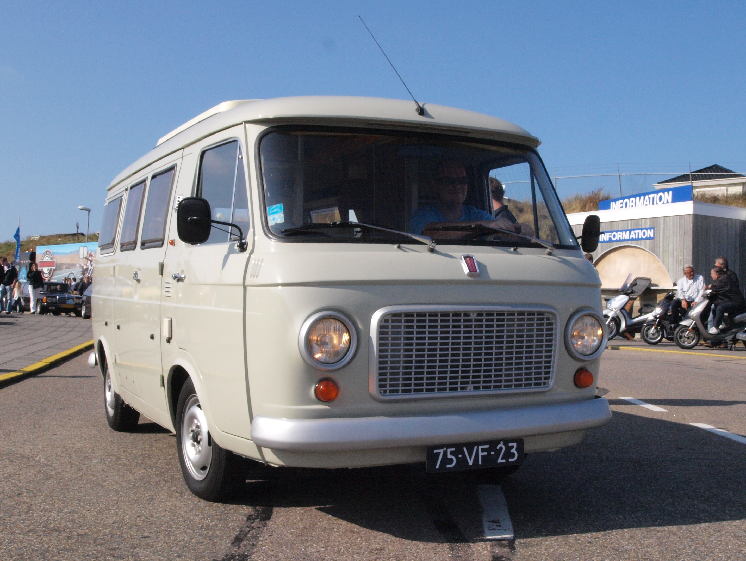 1977 Fiat 238 Photographed at the Nationaal Oldtimer Festival Zandvoort 2009, The Netherlands. OLYMPUS DIGITAL CAMERA